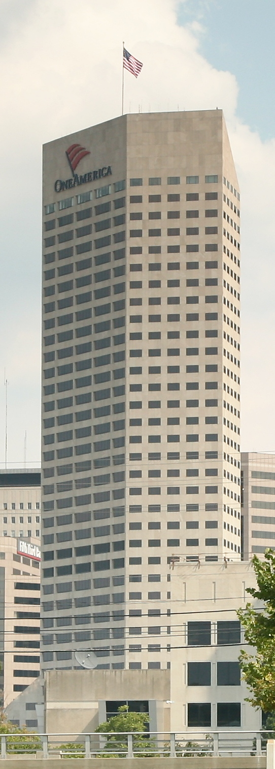 Central Canal and Indianapolis skyline